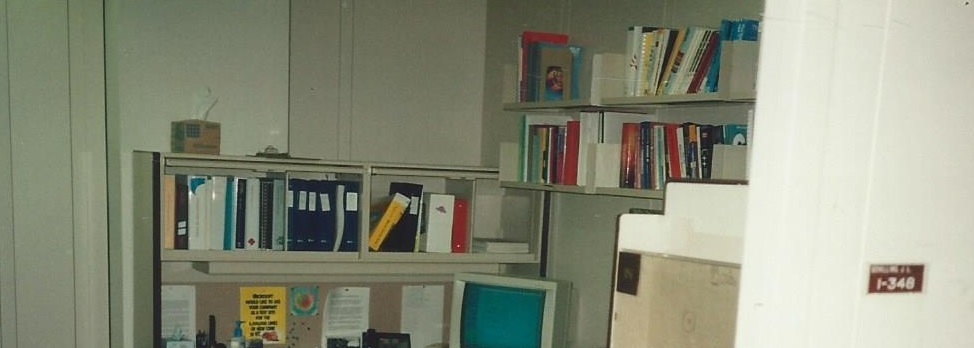 The Unix System Laboratories building in Summit, New Jersey, was not always simple to navigate and featured a multi-part room numbering scheme. (Although the photograph was taken after USL was acquired by Novell, it shows the characteristics of the AT&T/USL era.)